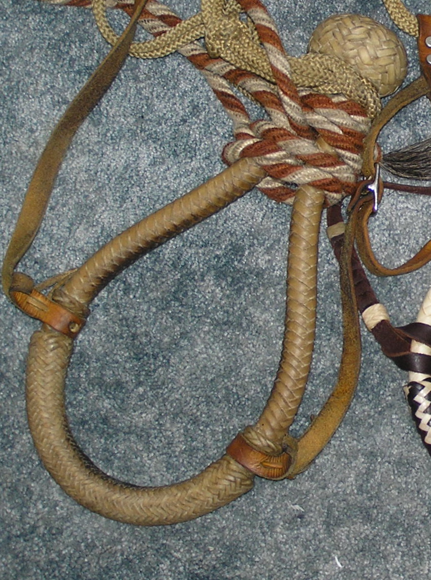 Detail of a 7/8" training bosal